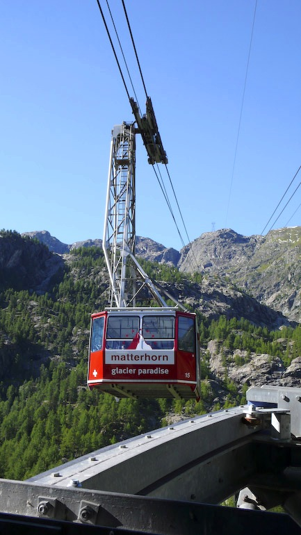 Furi-Trockener Steg section, Zermatt